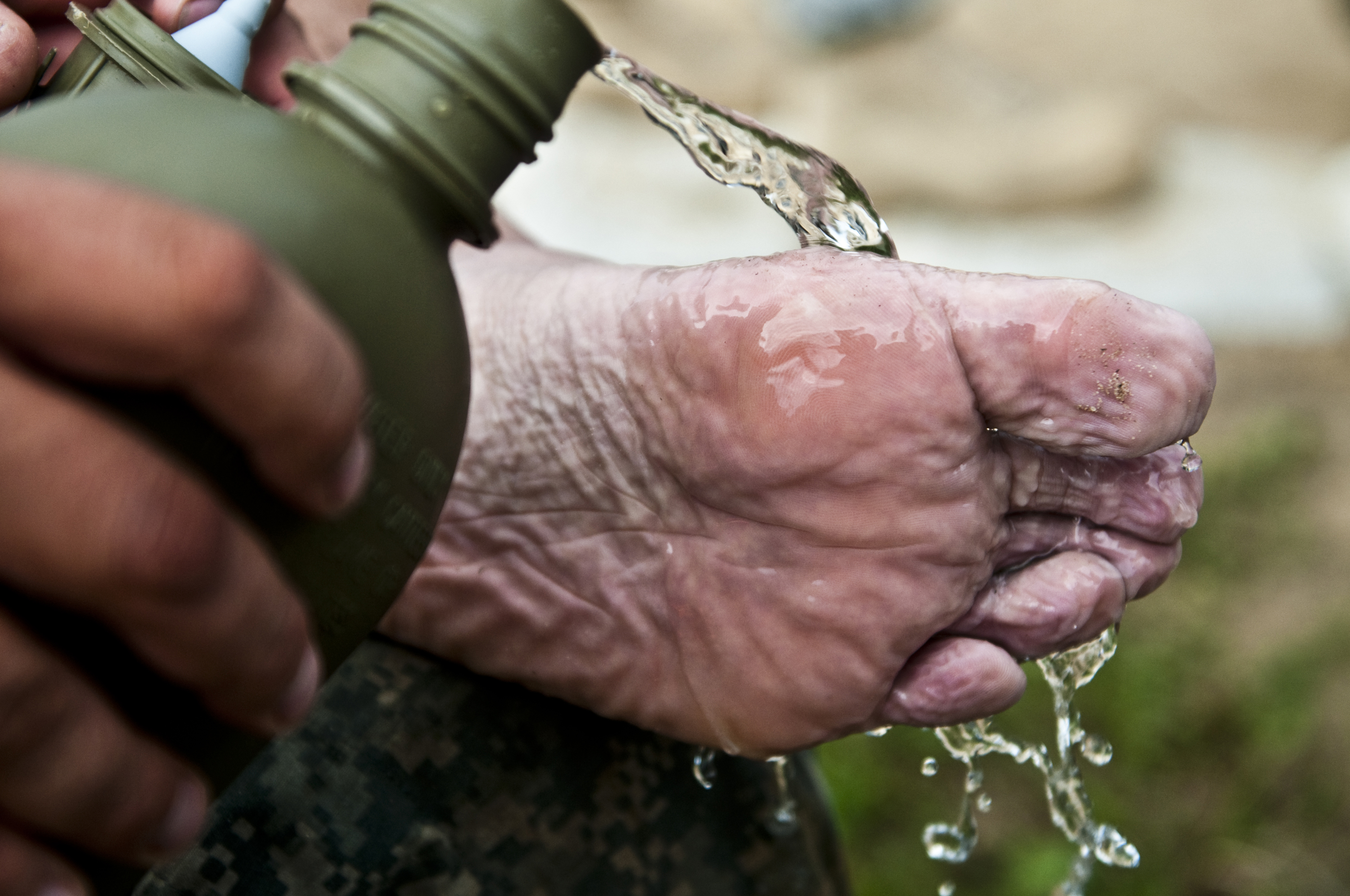 After finishing the land navigation course during the 2010 Army Reserve Best Warrior Competition, Sgt. 1st Class Martin J. Rodriguez, a military policeman from Pueblo, Colo., assigned to 1st Battalion, 104th Regiment, tries to cool down his feet at Fort McCoy, Wis., July 27, 2010. U.S. Army Reserve Command Photo by Staff Sgt. Mark Burrell Date: 07.27.2010 Location: Fort McCoy, US Related Photos